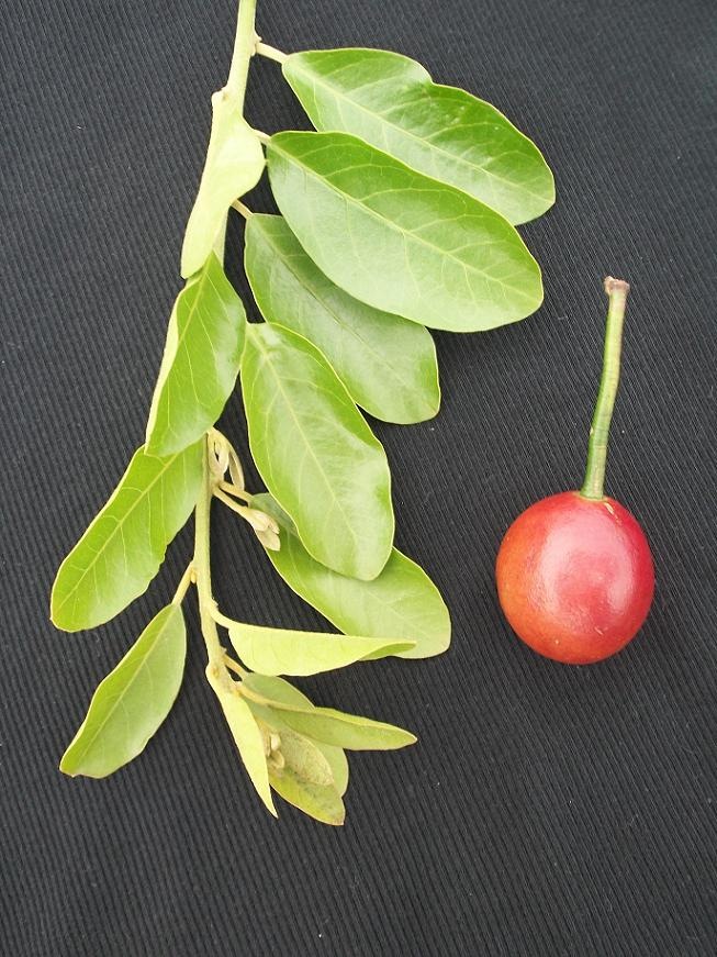 Capparis tomentosa branchlet and ripe fruit from Athlone Park, Amanzimtoti, South Africa.